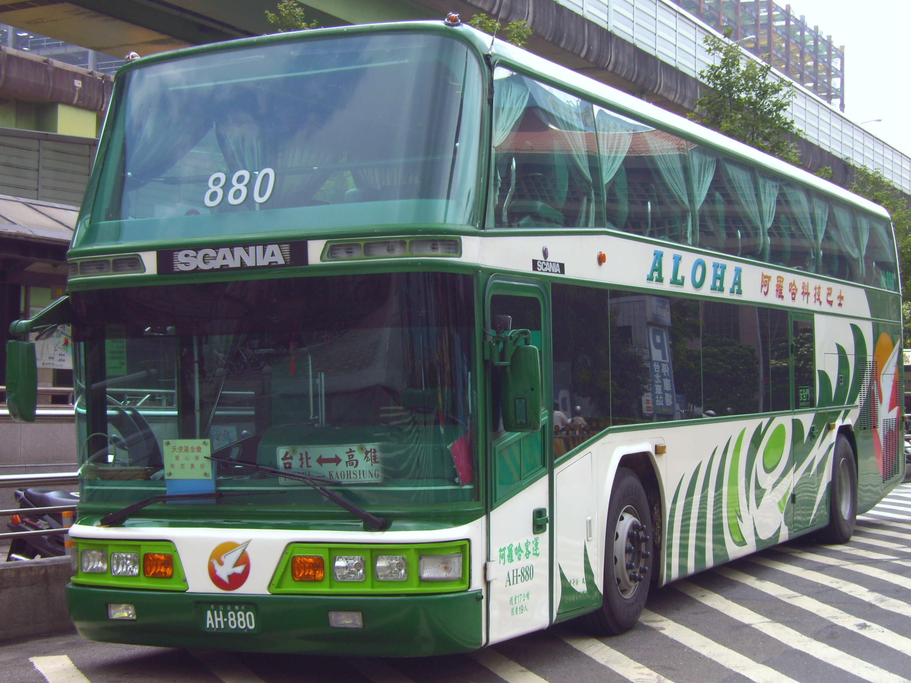 Aloha Bus Co., Ltd. operates freeway line with SCANIA K114IB4X2NB bus.